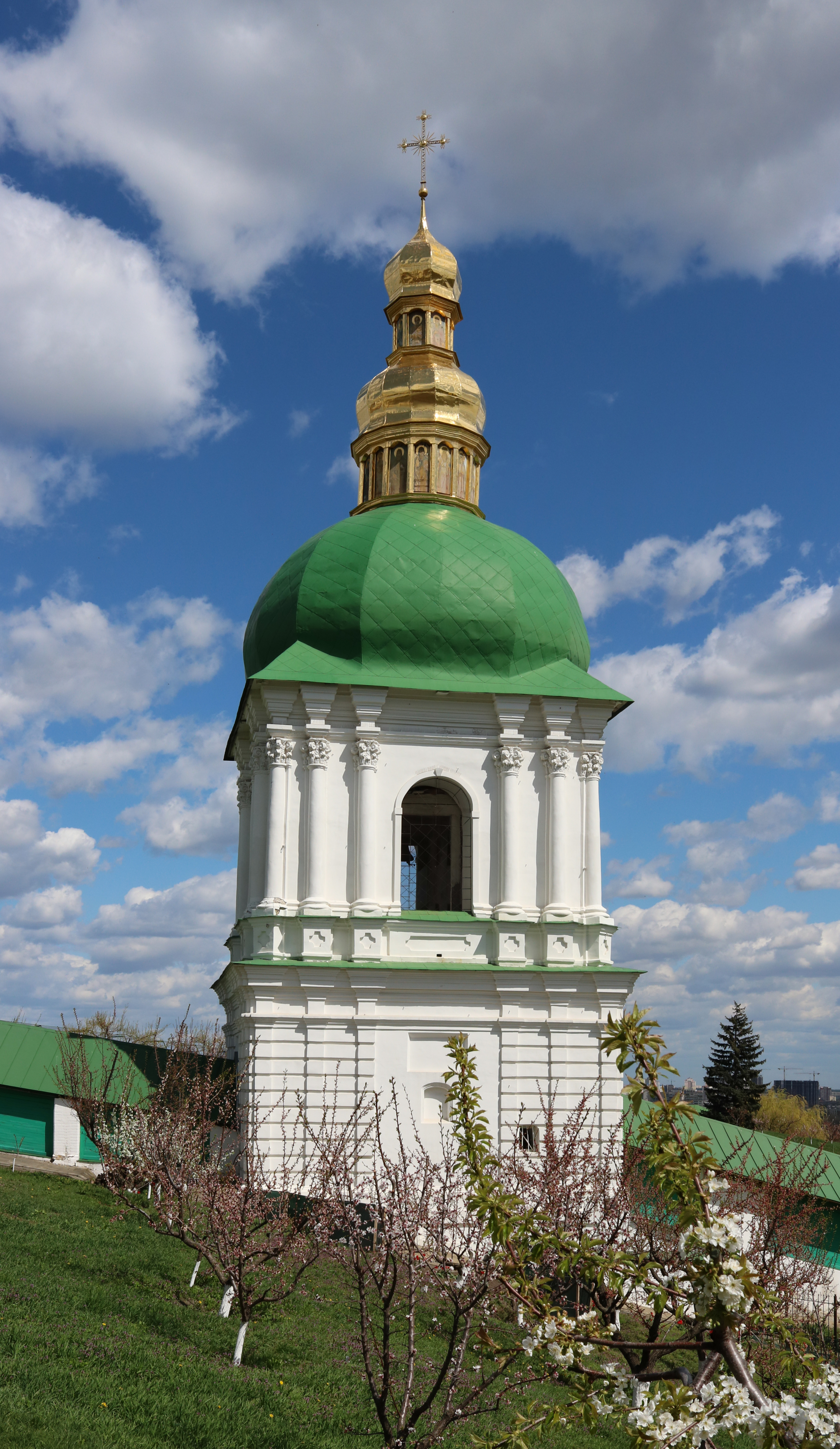 Kiev Pechersk Lavra. The Bell tower of nearby caves. XVIII Century.